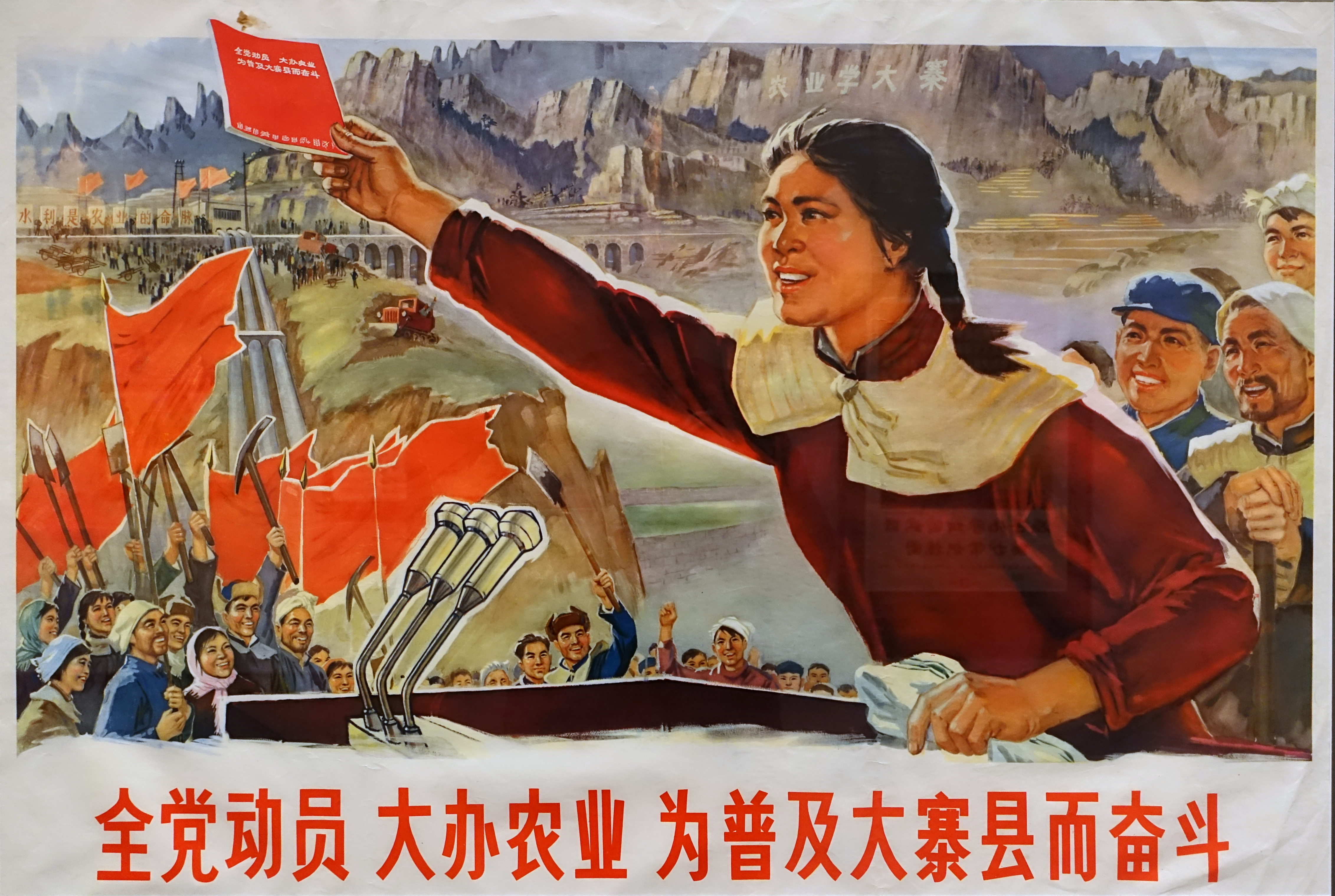 Exhibit in the Jordan Schnitzer Museum of Art, University of Oregon - Eugene, Oregon, USA.